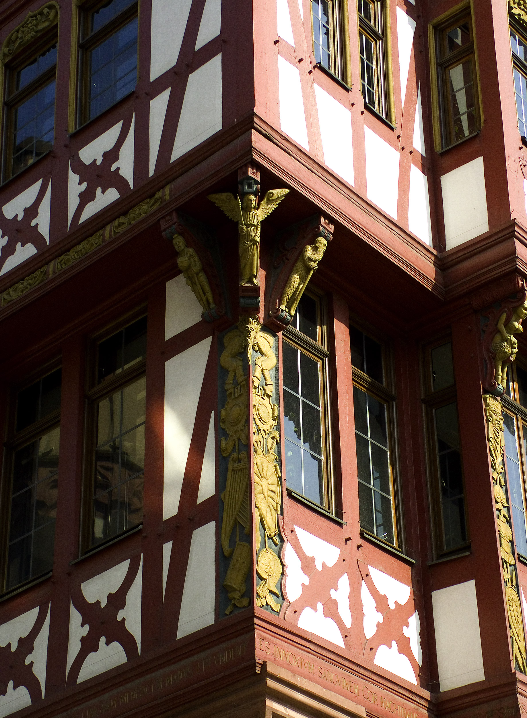 Frankfurt on the Main: Town-house Großer Engel (Great Angel), carved decorations of the corner post as seen from the Römerberg